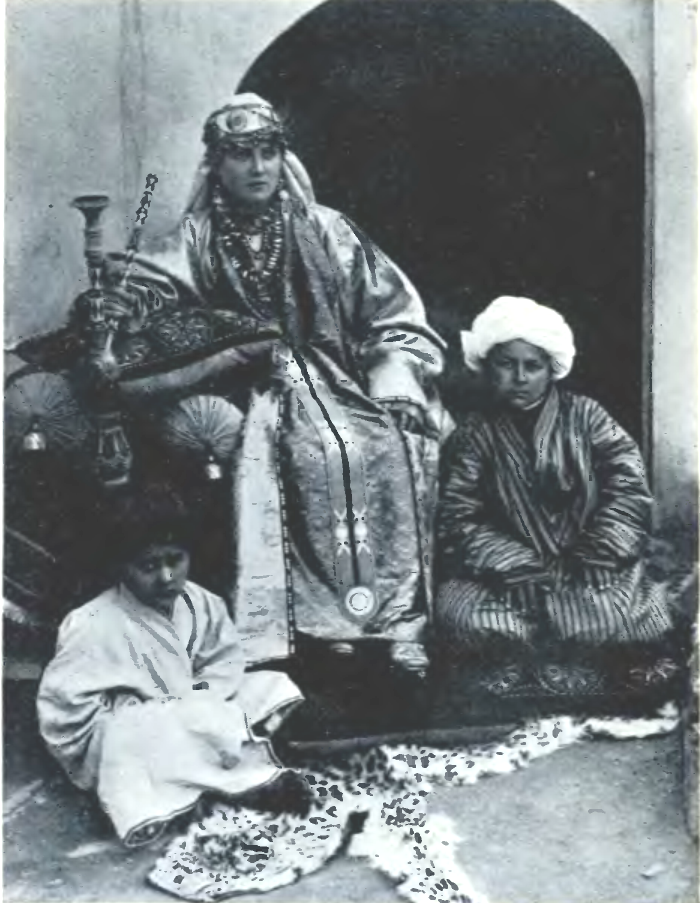 Woman and children from Bukhara, late 19th century.